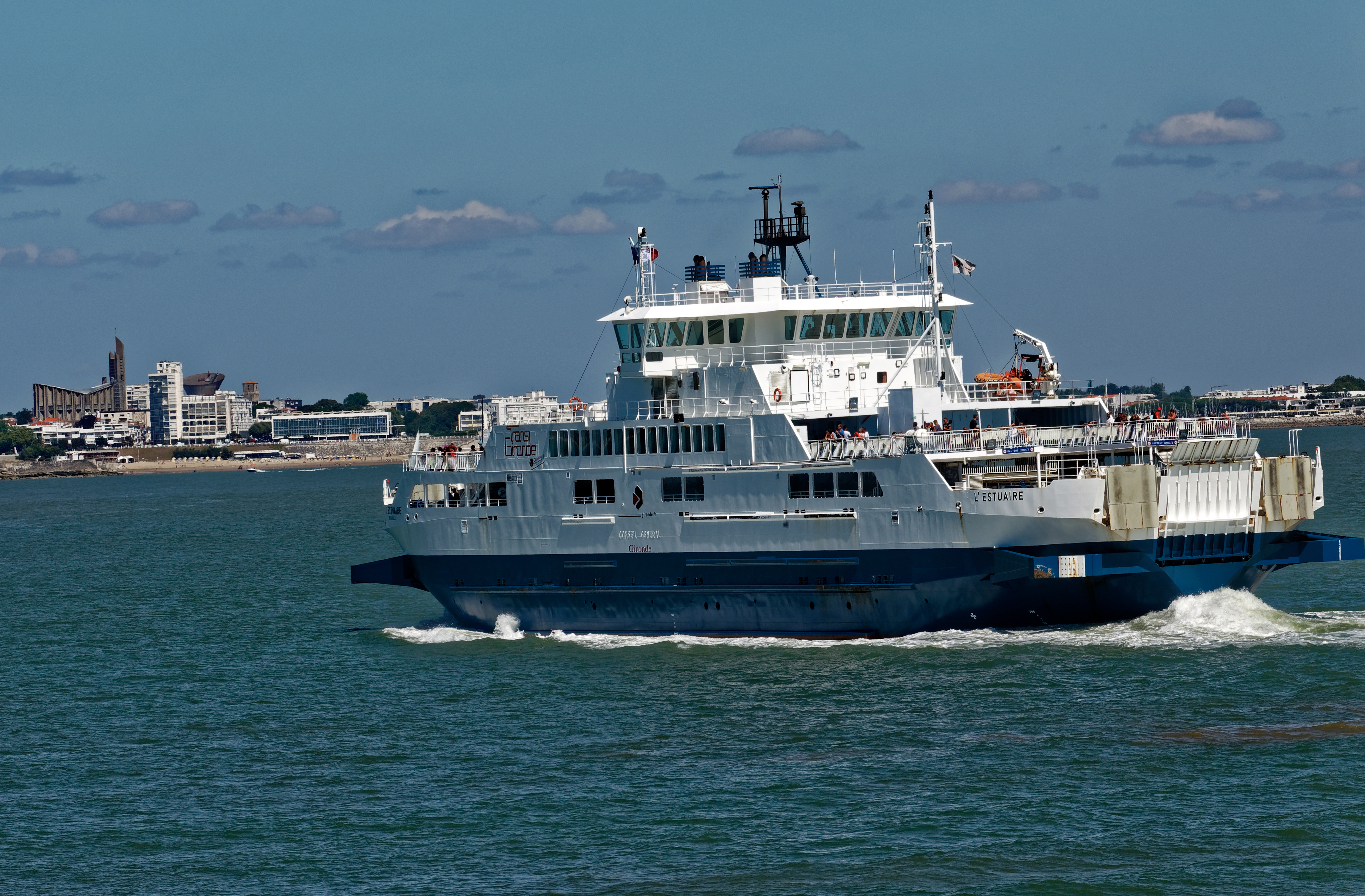 Royan seen from the ferry.